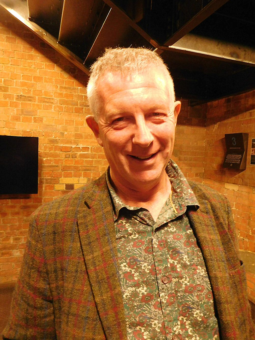 Stephen Moss at LWT Walthamstow Wetlands, 2018